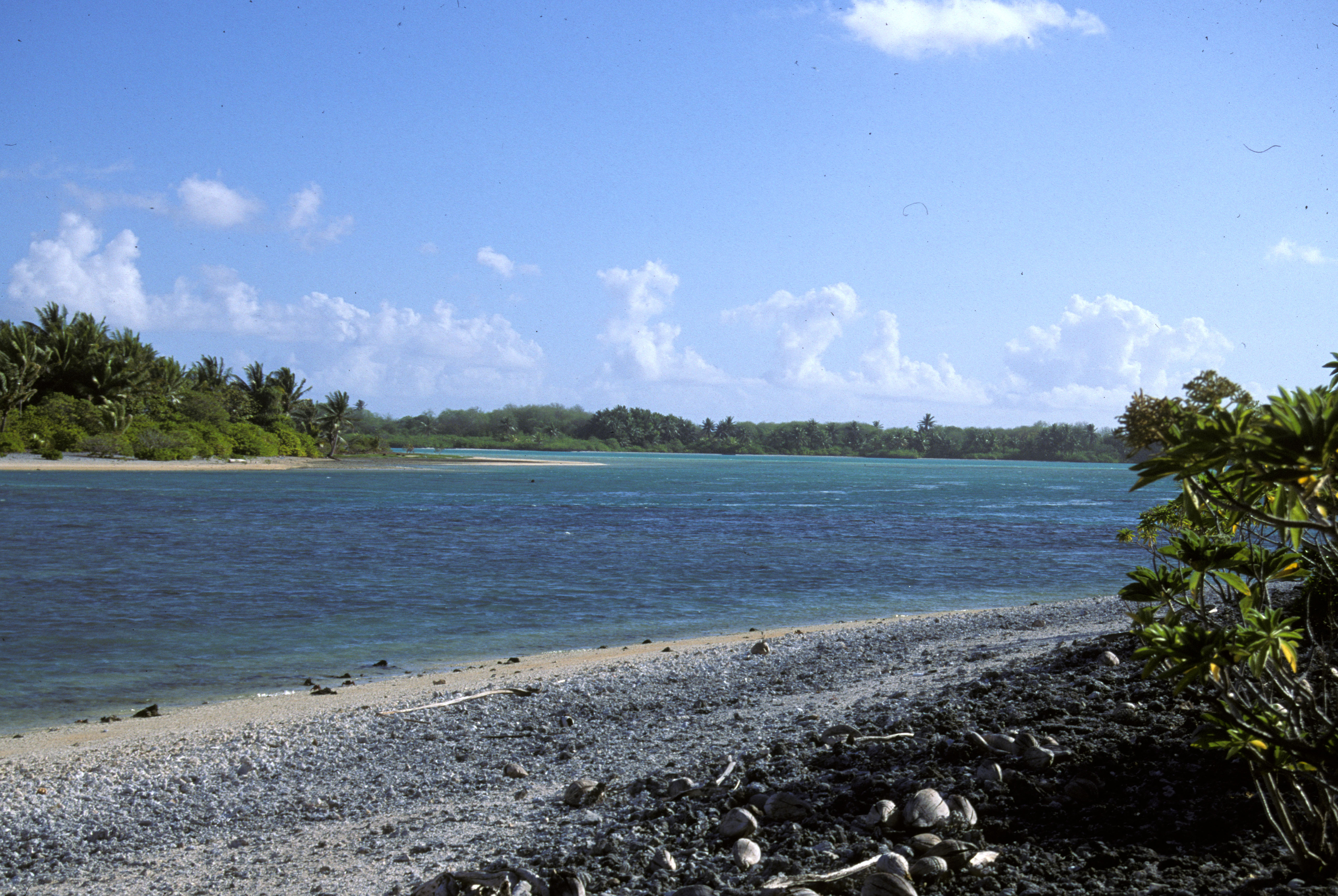 Tatiman Passage in the northwest of the Atoll is the only navigable entrance into the lagoon of Nikumaroro (formerly Gardner Island), Phoenix Islands, Kiribati. Original field notes: Showing tree heliotrope (far right). All mounded vegetation on atolls is native. The introduced, most important food plant, coconut palm, tends to have a tall, spiky look. Many inter-islet channels are not as deep as this one.